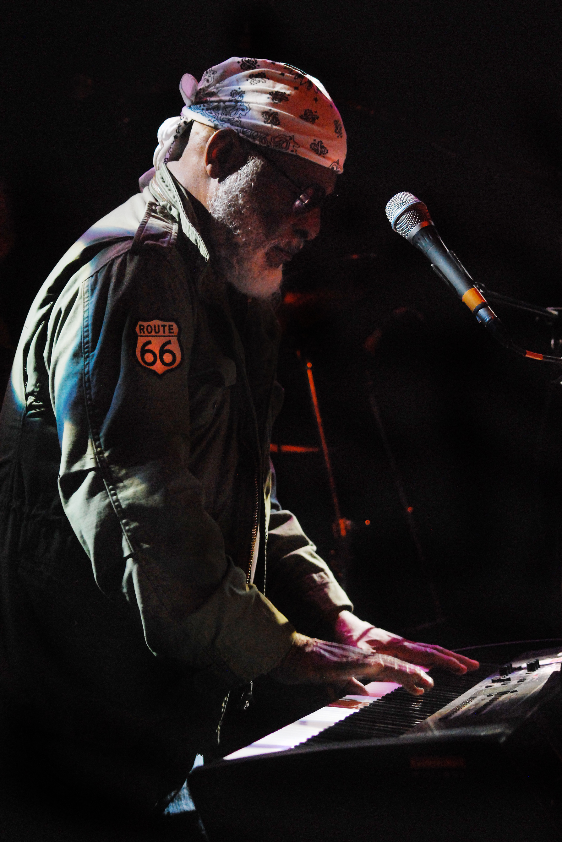 Show of Mighty Mo Rodgers at the Bacardi in Callac the 30 of January 2011.